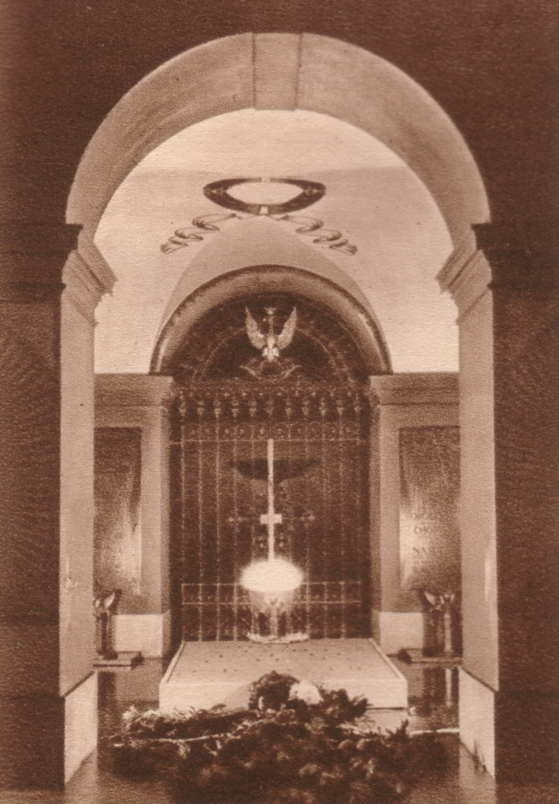 Tomb of the Unknown Soldier in Warsaw, Poland.